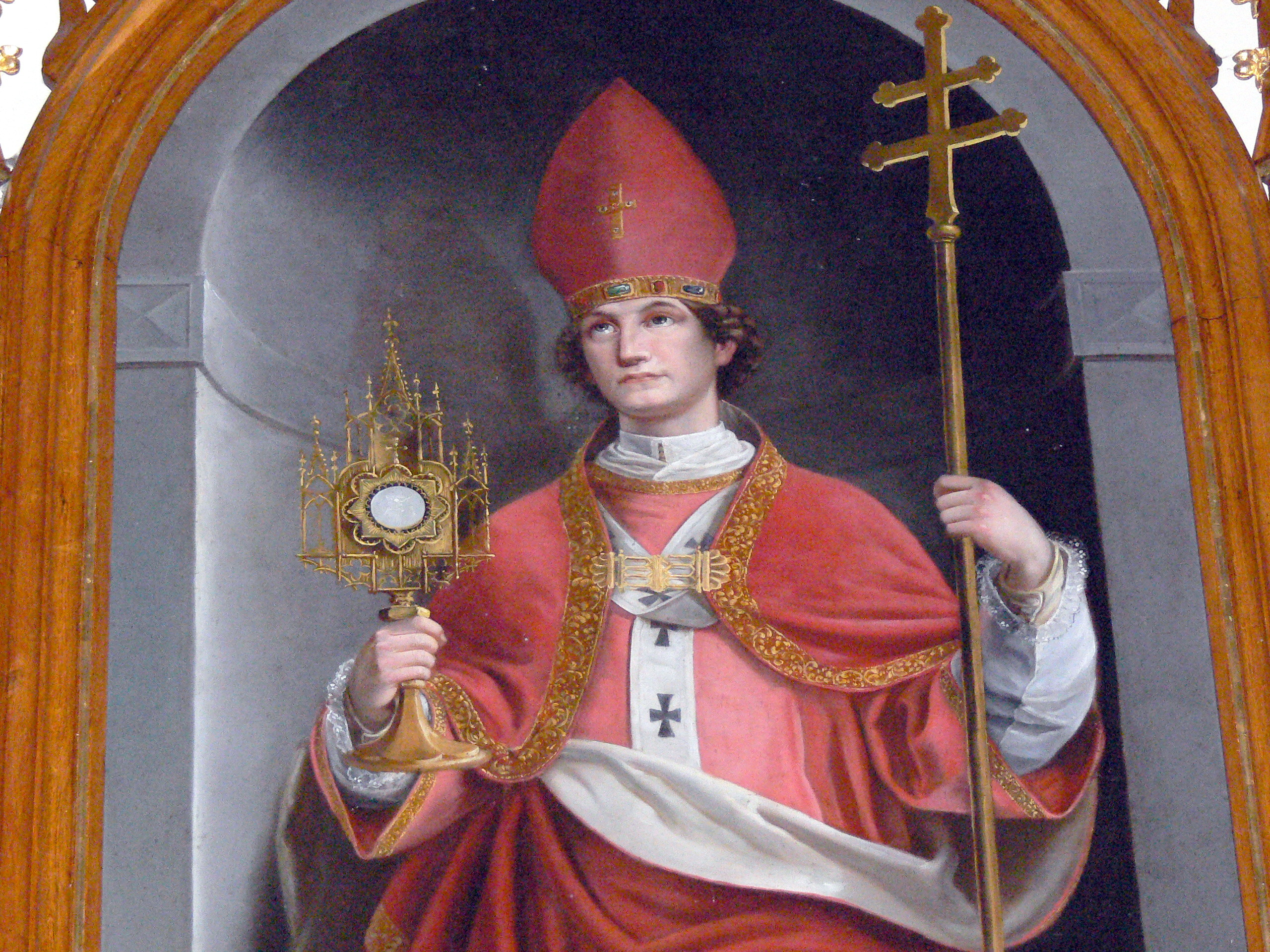 Schlägl. Cemetery church Maria Anger. Painting of Saint Norbert ( 19th century )